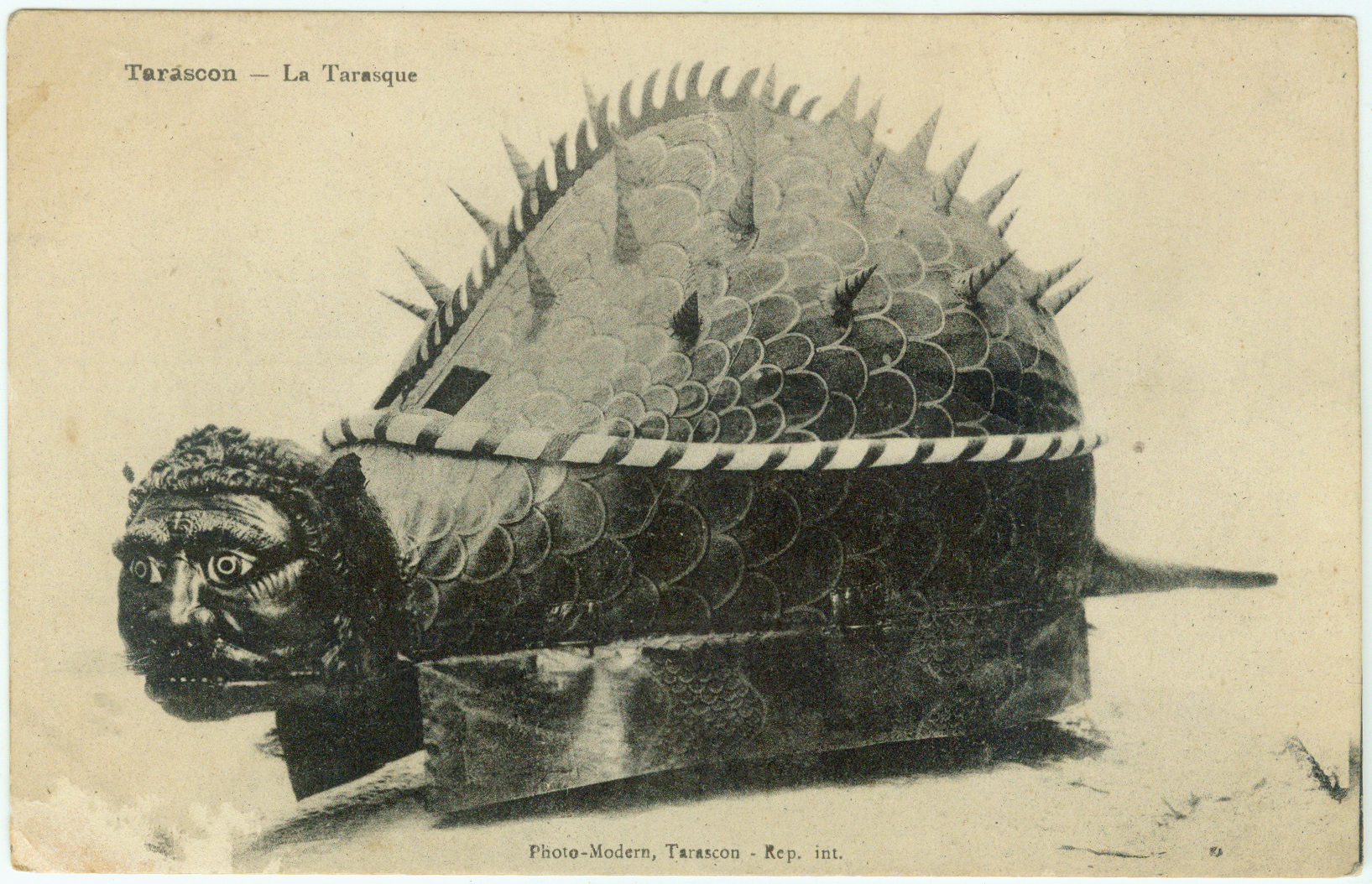 Old postcard Tarasque of Tarascon